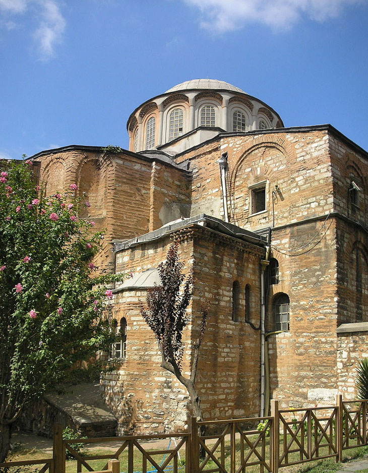 Outside view of the Chora Church in Istanbul, today a museum. It is famous for its Byzantine mosaics.